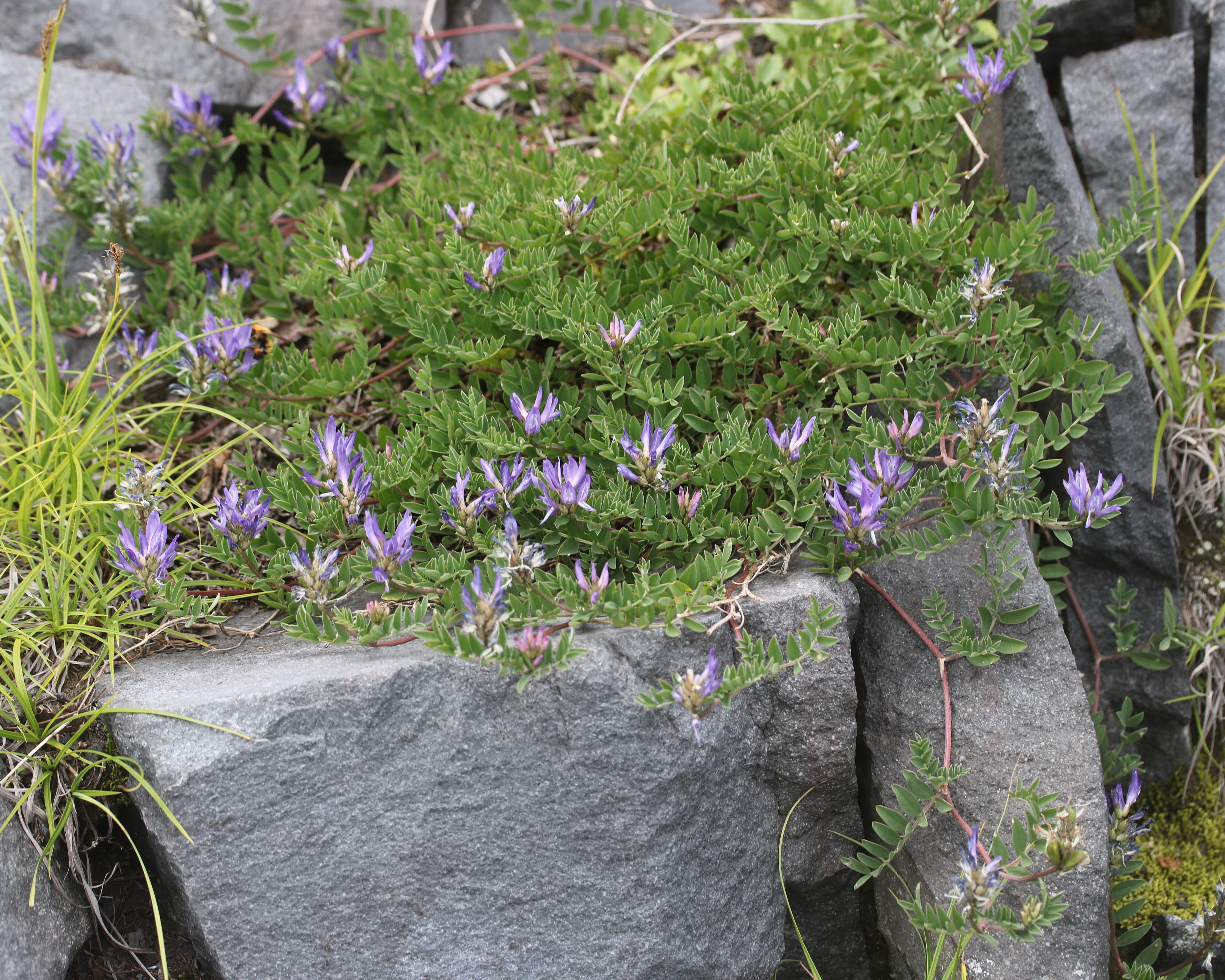 Astragalus laxmannii var. adsurgens in Mount Fuji, Gotenba, Shizuoka Prefecture, Japan.